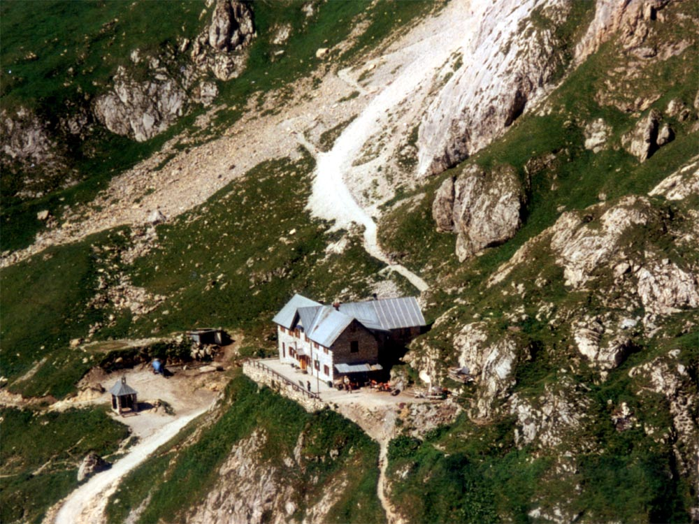 Rifugio Pier Fortunato Calvi on the italien (southern) side of the Carnic Alps